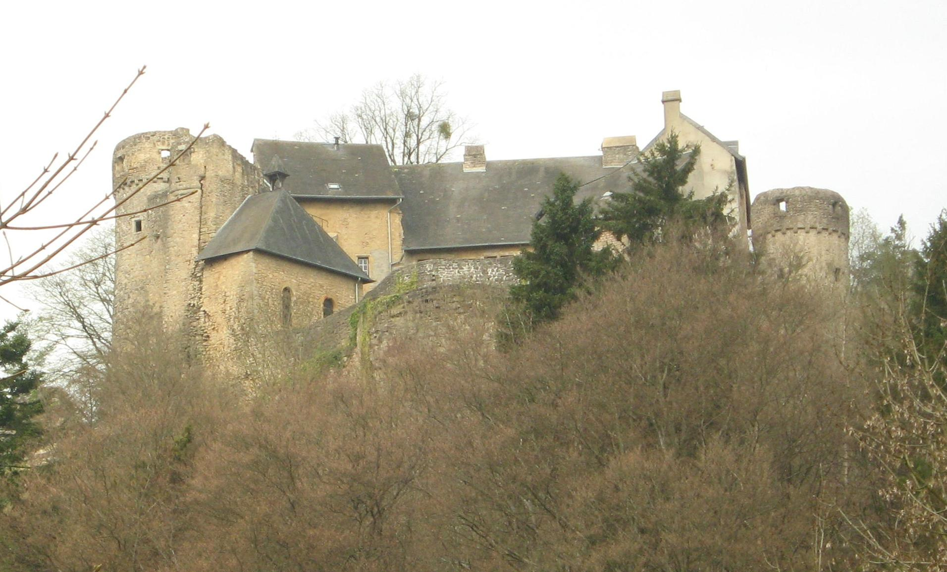 Ansembourg Castle, Luxembourg.